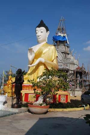 his renowned is in Nang-Buat